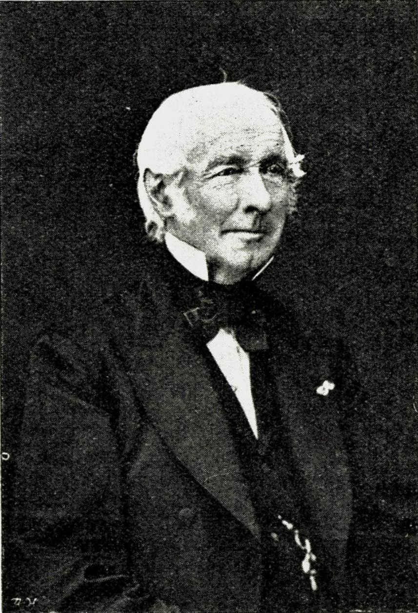 Illustrasjon hentet fra boken "Gjerpen" av Qvisling, J.L. og utgitt av i kommisjon hos H. AschehougKristiania : i kommisjon hos H. Aschehoug, 1917-1921 (Kristiania, 1921)Depicted person: Christopher Hansen Blom